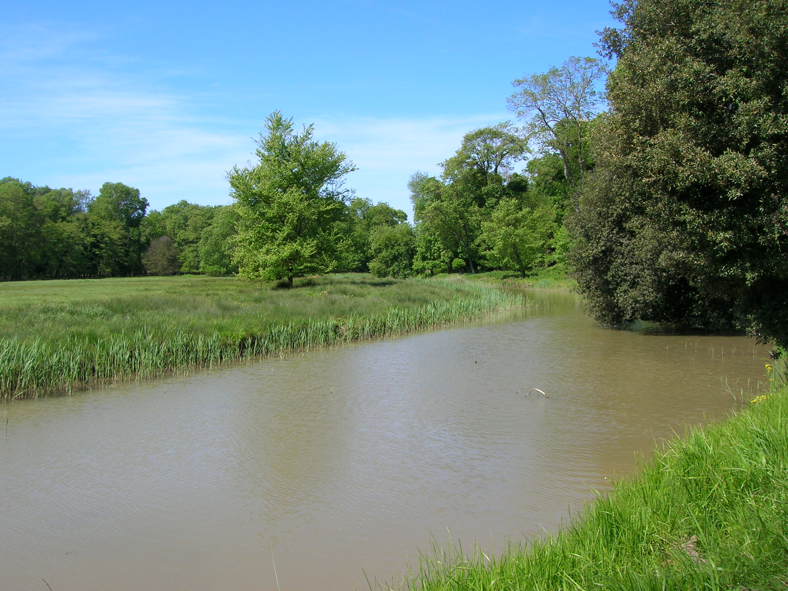 Old Fiume Morto in San Rossore, Pisa, Tuscany, Italy